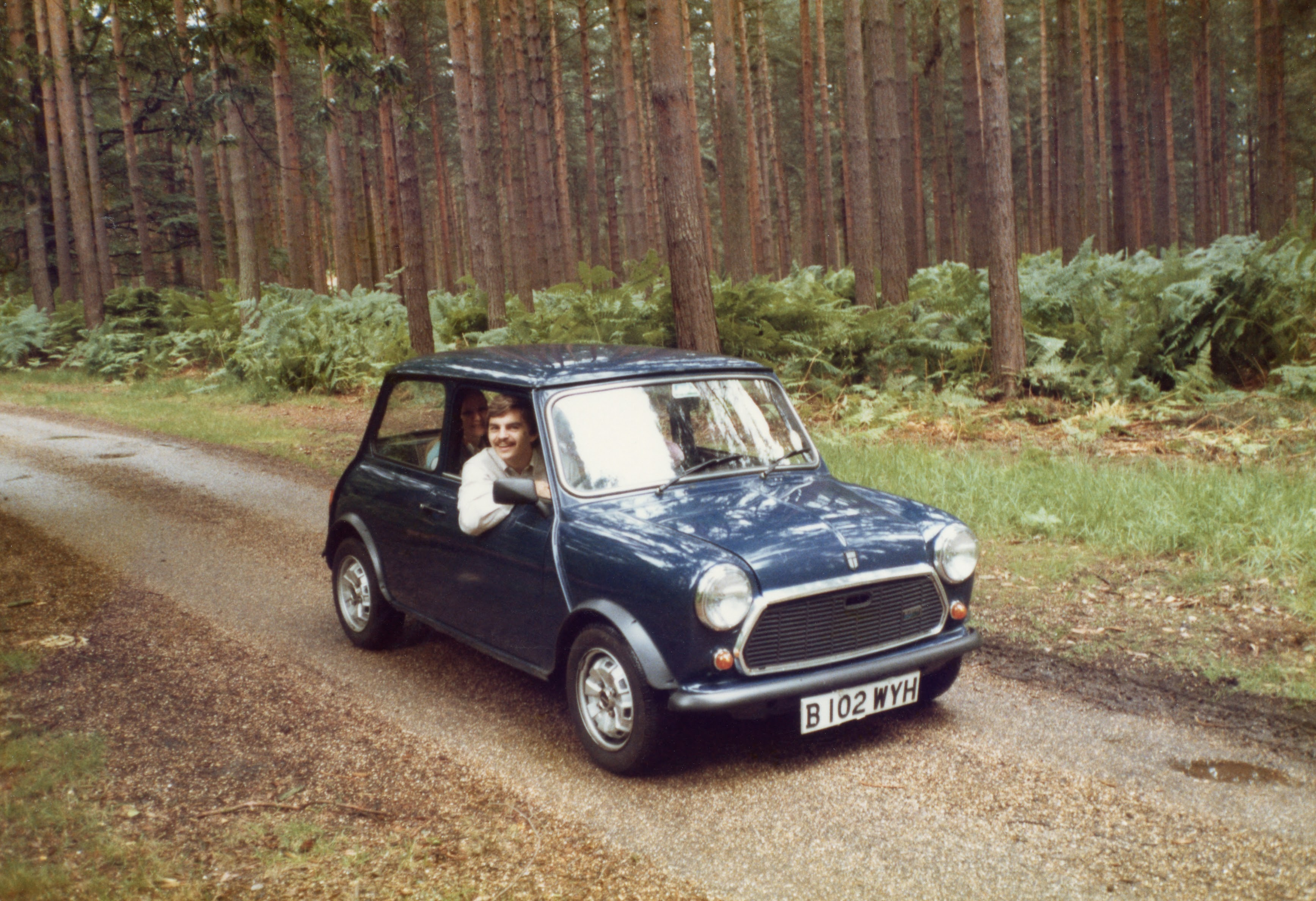 A Mini City E in 1985